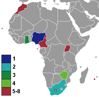 Results of teams that participated in the 2000 African Women's Championship, the fourth edition of the biennial football championship organised by the CAF.